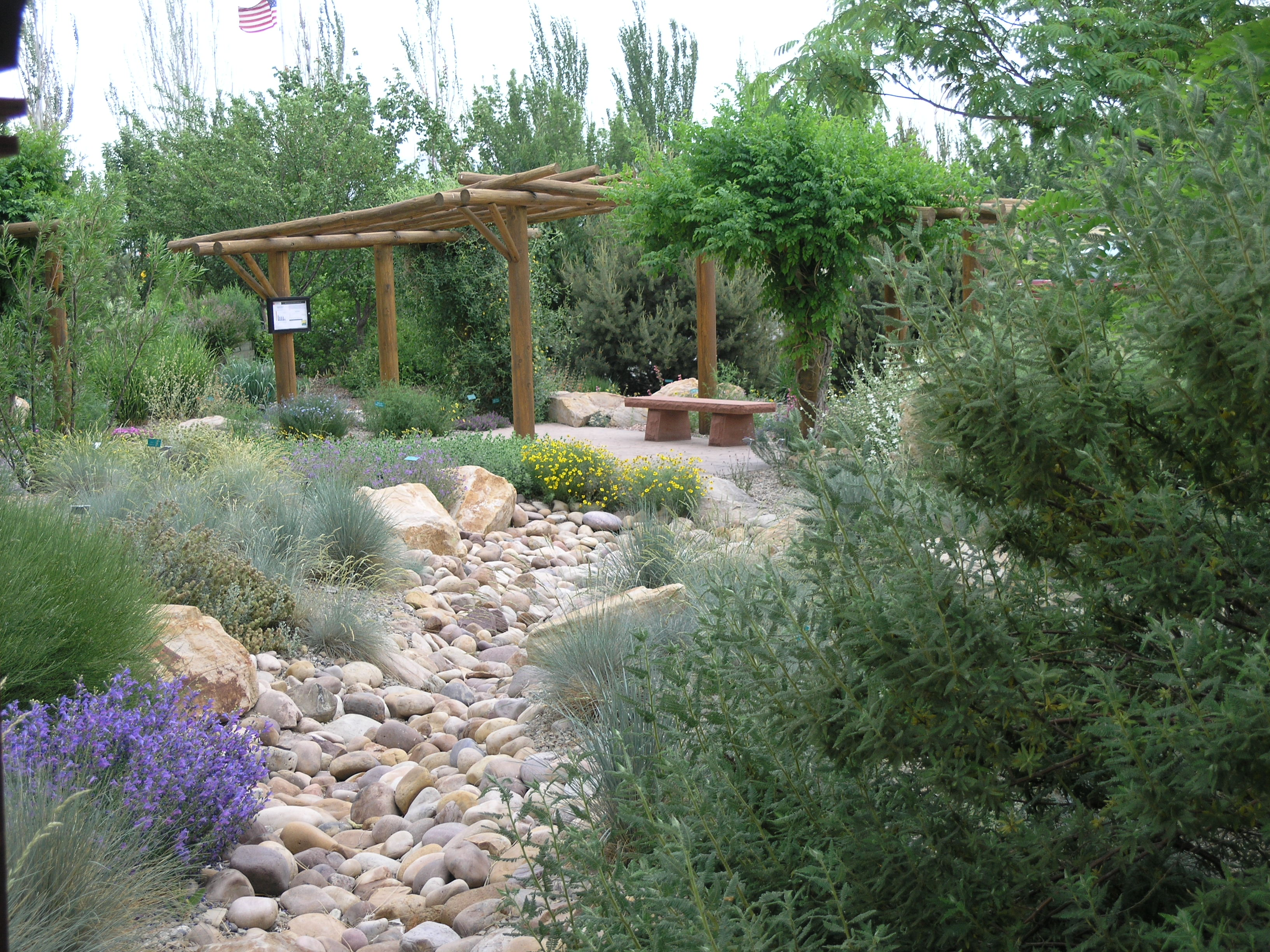 View of High Mountain Desert Riverbed